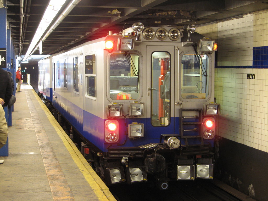 NYC Subway Plasser Theurer Track Geometry Car #TGC3 at Jay Street-Boro Hall in Brooklyn, New York.